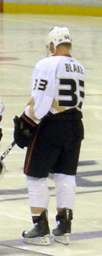 Jason Blake before the Anaheim Ducks vs. Detroit Red Wings game at Joe Louis Arena in Detroit on Friday, October 8, 2010. Detroit won 4–0.